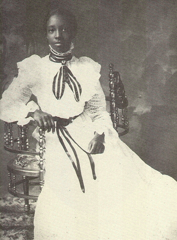 Carlotta Stewart Lai around age 19 in Hawaii, ca. 1900